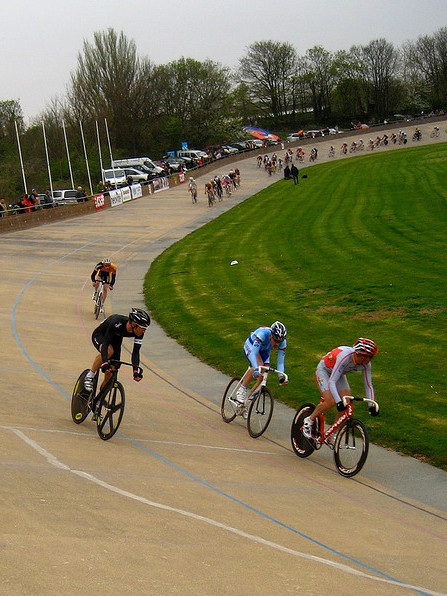 Points race at Herne Hill